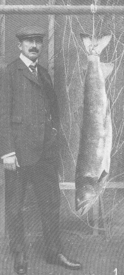 Huchen. 46 lbs. taken in the Inn River, Bavaria, by Ludwig Deiglmayer Subject: Deiglmayer, Ludwig, Huchen Tag: Soirt Fishing